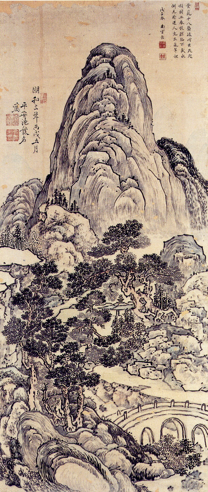 Ike no Taiga: Perspective, 136x52 cm. Ink and color on paper. Tokyo National Museum.